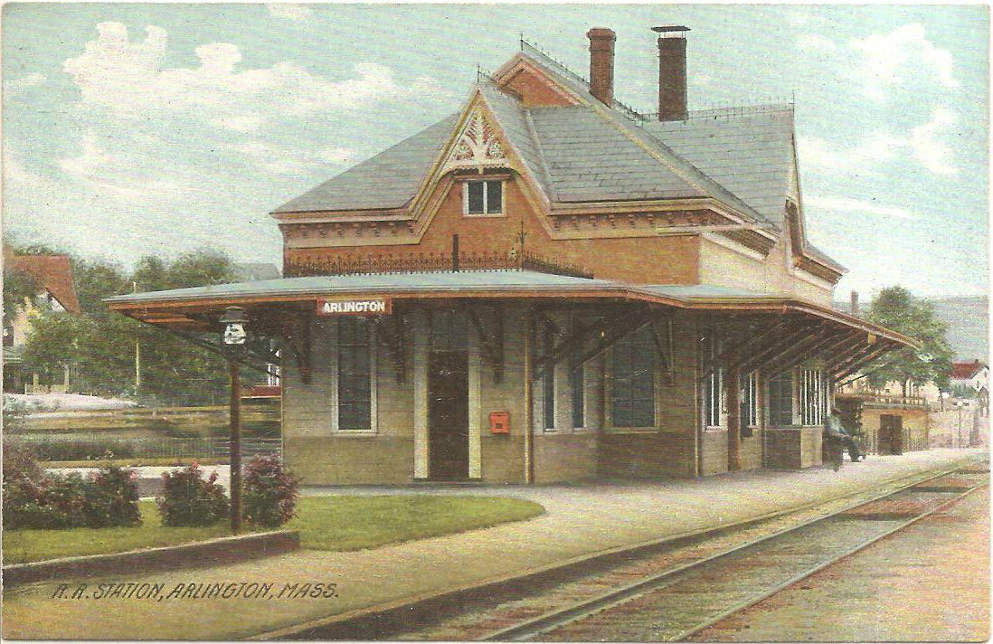 Early divided back postcard of Arlington station